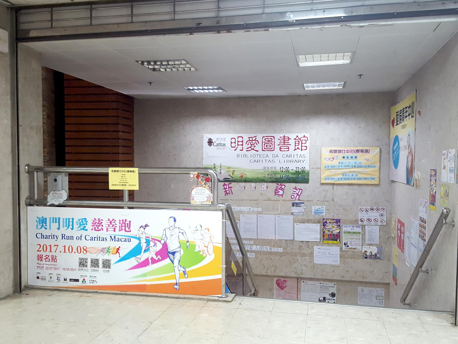 Entrance of Macau Caritas Library